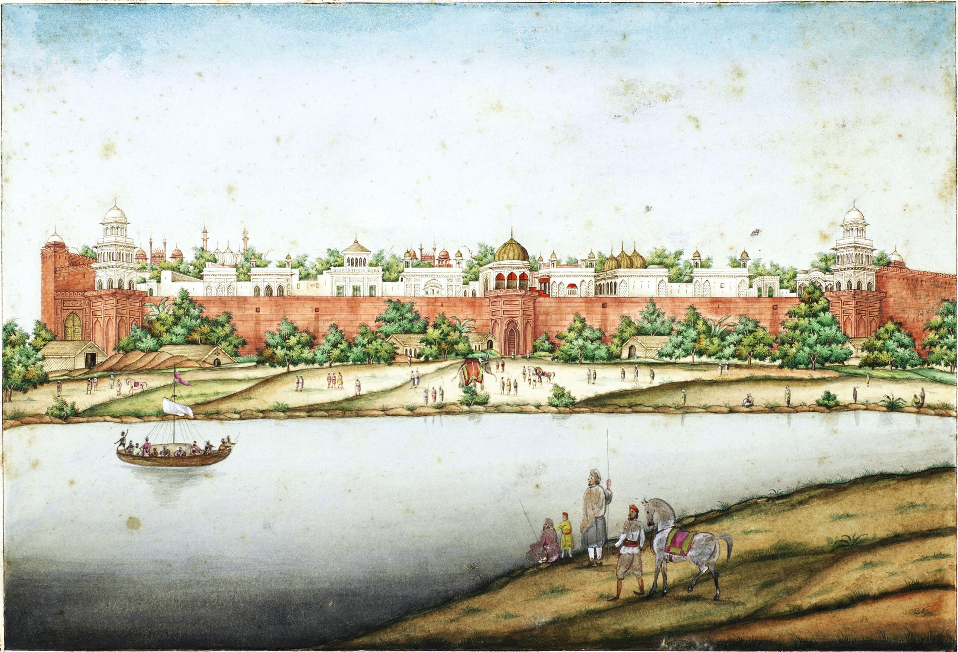 View of the Palace Buildings of the Shah Boorj, Summer Boorj, and Ussud Boorj from the Eastern or river face.; the view of the Red Fort with the Shah Burj, the Saman Burj and Asad Burj from the river. A series of 31 paintings by Ghulam Ali Khan (fl. 1817-55), consisting of views of monuments in and around Delhi, and including four portraits of the last Mughal Emperor Bahadur Shah II (reg. 1837-58) and his sons. Watercolour and gold on paper, black margin rules, three title pages, three sheets of portraits, all with identifying inscriptions in English and in Persian in nasta'liq script in black ink, the portraits with further inscriptions in nasta'liq script with the date November 1852 (Christian date written in Arabic), in later mounts, loose in contemporary green leather-covered despatch box, the lid embossed in gold DELHEE 1854. Size paintings 290 x 215 mm. and slightly smaller; mounts 318 x 394 mm.; box 435 x 365 x 110 mm.